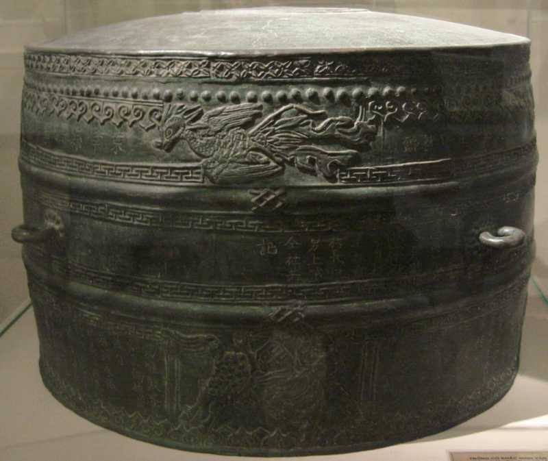 A broze drum made during Tây Sơn Dynasty, Vietnam. It is Vietnam National Treasure now showing in the Museum of Vietnam History, Hà Nội.